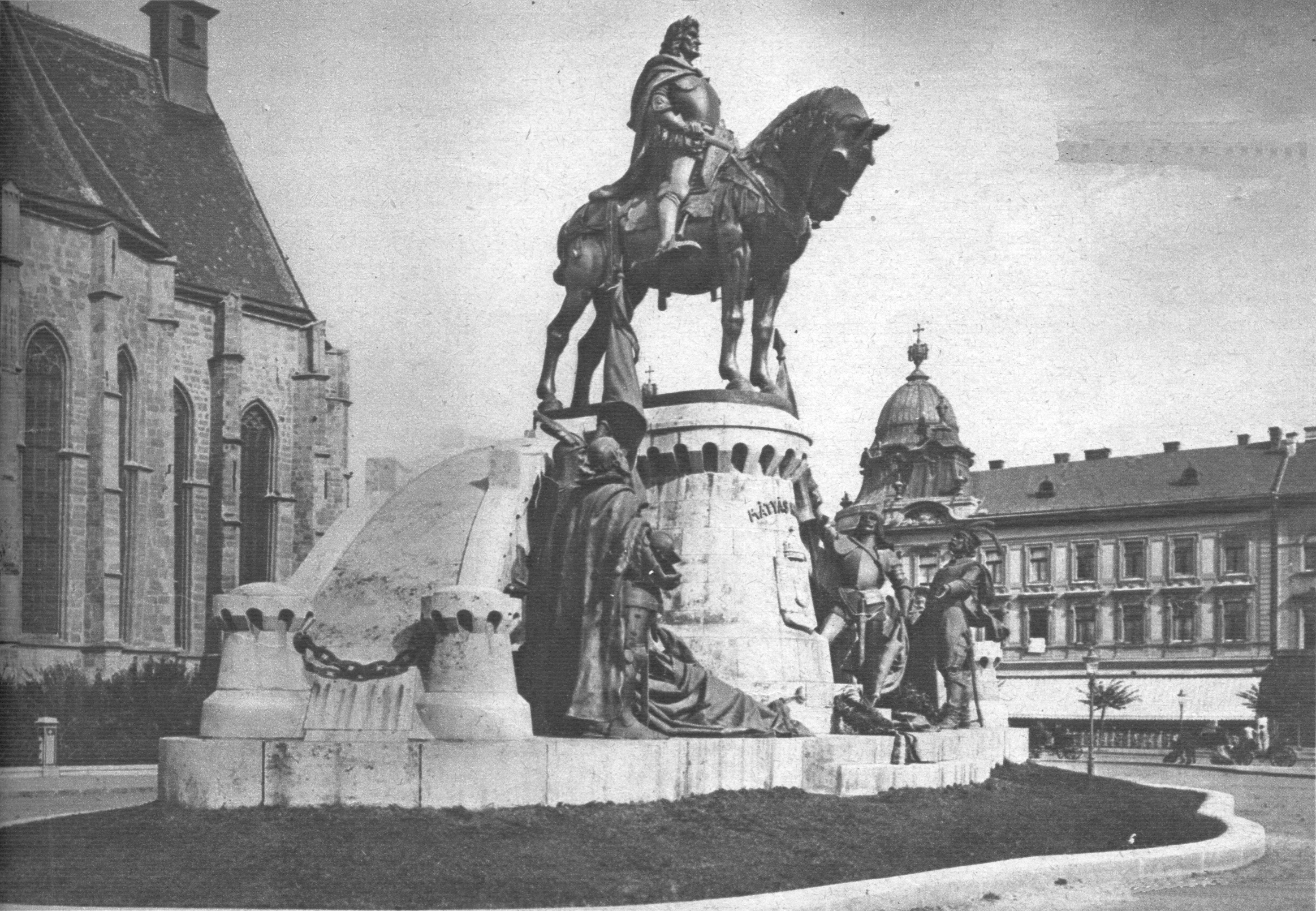 The Matthias Corvinus Statue, Cluj, before 1930.